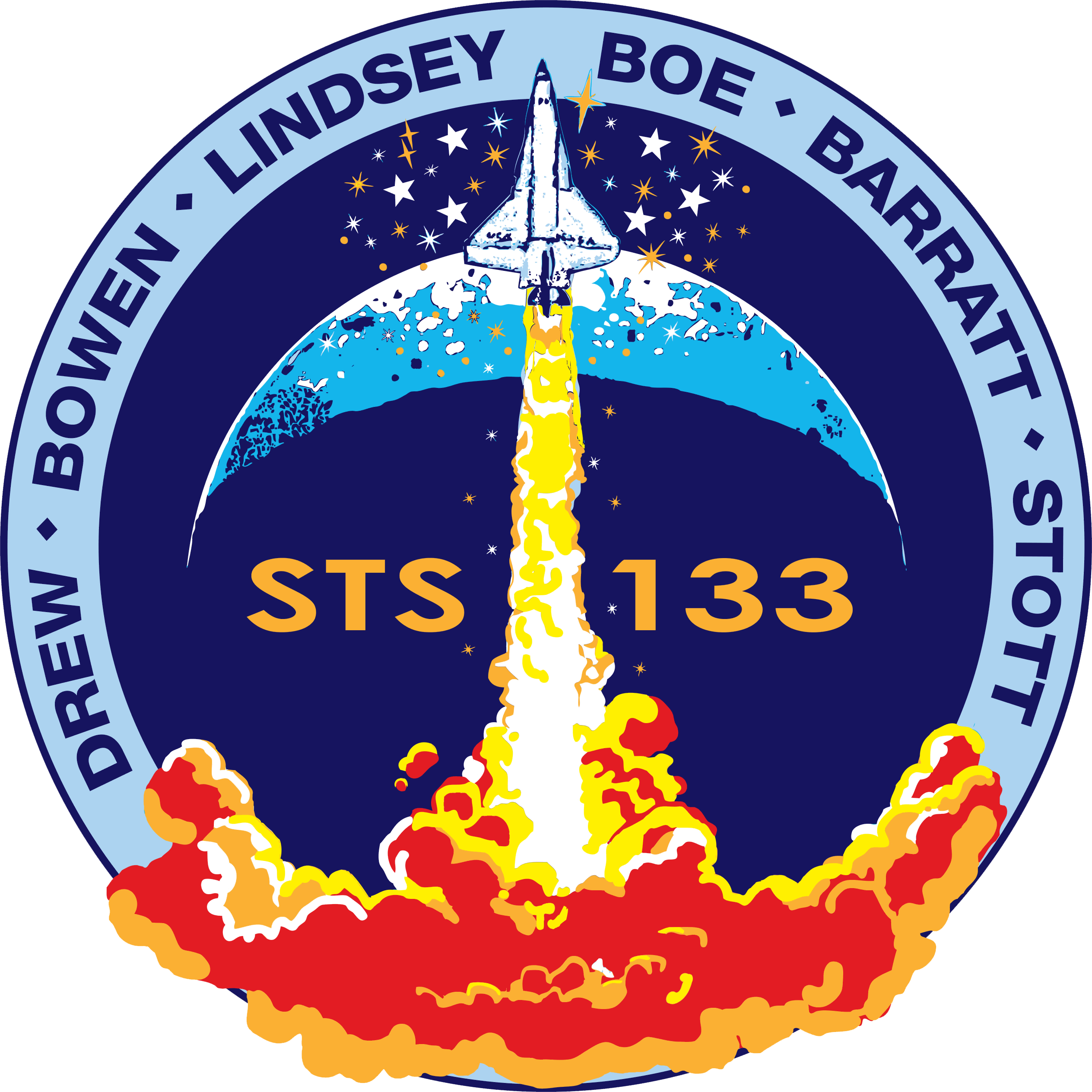 The STS-133 mission patch is based upon sketches from the late artist Robert McCall; they were the final creations of his long and prodigious career. In the foreground, a solitary orbiter ascends into a dark blue sky above a roiling fiery plume. A spray of stars surrounds the orbiter and a top lit crescent forms the background behind the ascent. The mission number, STS-133, is emblazoned on the patch center, and crewmembers' names are listed on a sky-blue border around the scene. The Shuttle Discovery is depicted ascending on a plume of flame as if it is just beginning a mission. However it is just the orbiter, without boosters or an external tank, as it would be at mission's end. This is to signify Discovery's completion of its operational life and the beginning of its new role as a symbol of NASA's and the nation's proud legacy in human spaceflight.